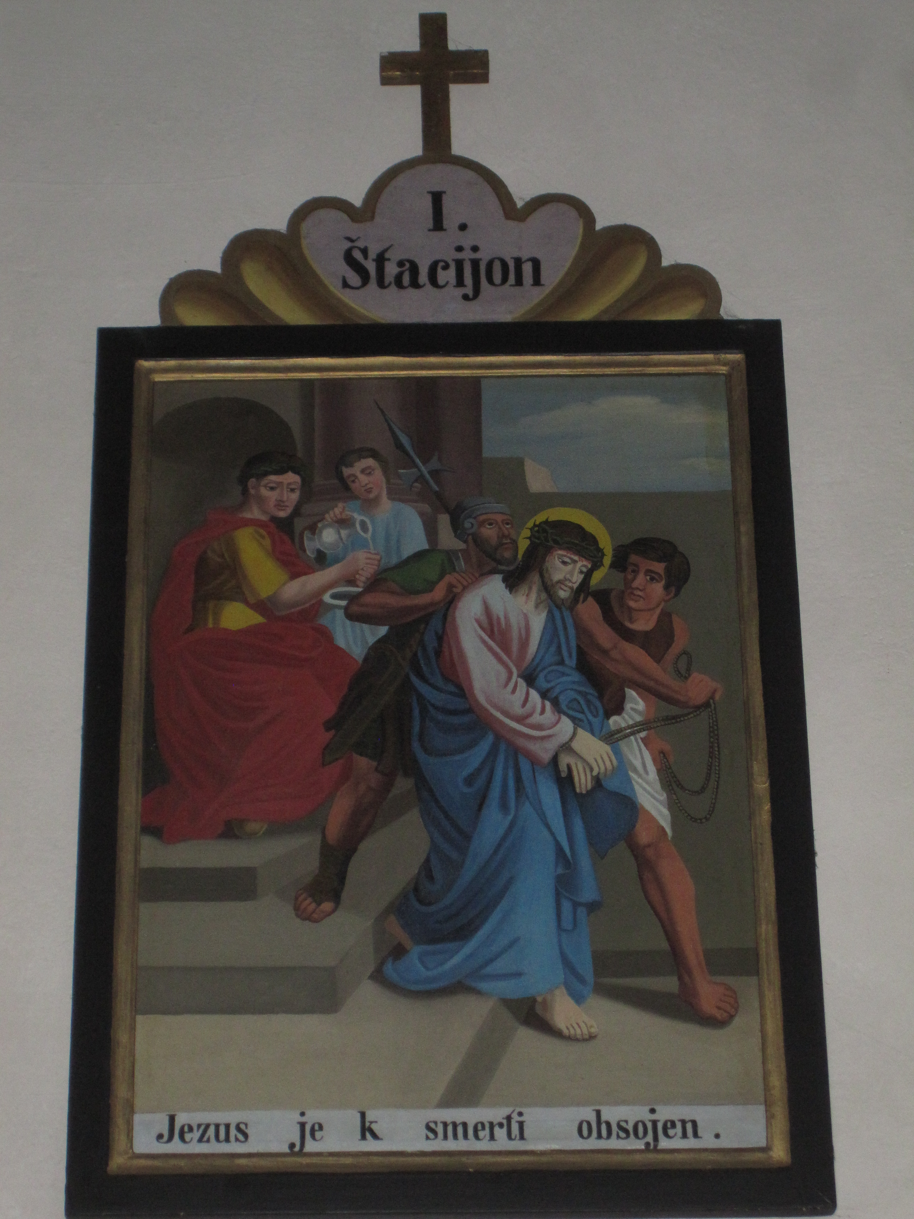 Church in Dolina, pilgrimage church in the Municipality of Poggerdorf/Pokrče in Carinthia/Austria, 1st station of the cross with slovneian inscription, end of 19th century